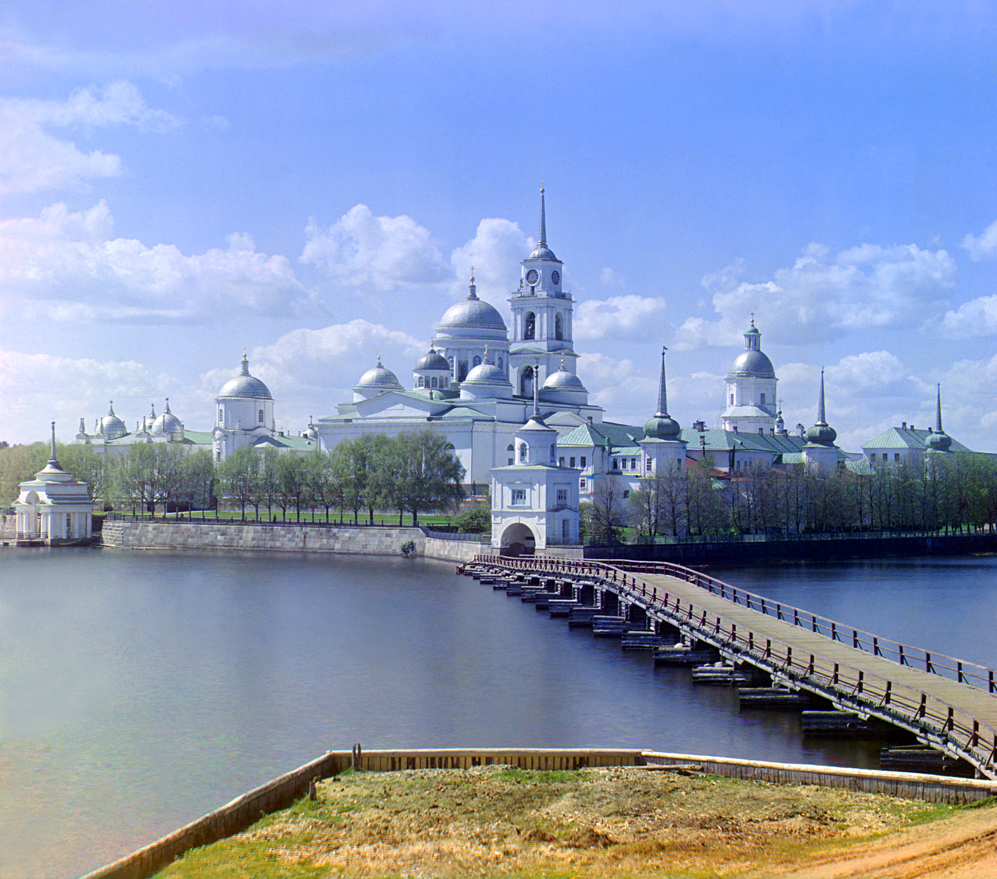 Early color photograph from Russia, created by Sergei Mikhailovich Prokudin-Gorskii as part of his work to document the Russian Empire from 1909 to 1915. The Monastery of St. Nil on Stolobnyi Island in Lake Seliger in Tver Province. Full caption from The Library of Congress exhibition "The Empire That Was Russia:View of the Nilova Monastery. The Monastery of St. Nil' on Stolobnyi Island in Lake Seliger in Tver' Province, northwest of Moscow, illustrates the fate of church institutions during the course of Russian history. St. Nil (d. 1554) established a small monastic settlement on the island around 1528. In the early 1600s his disciples built what was to become one of the largest, wealthiest, monasteries in the Russian Empire. The monastery was closed by the Soviet regime in 1927, and the structure was used for various secular purposes, including a concentration camp and orphanage. In 1990 the property was returned to the Russian Orthodox Church and is now a functioning monastic community once